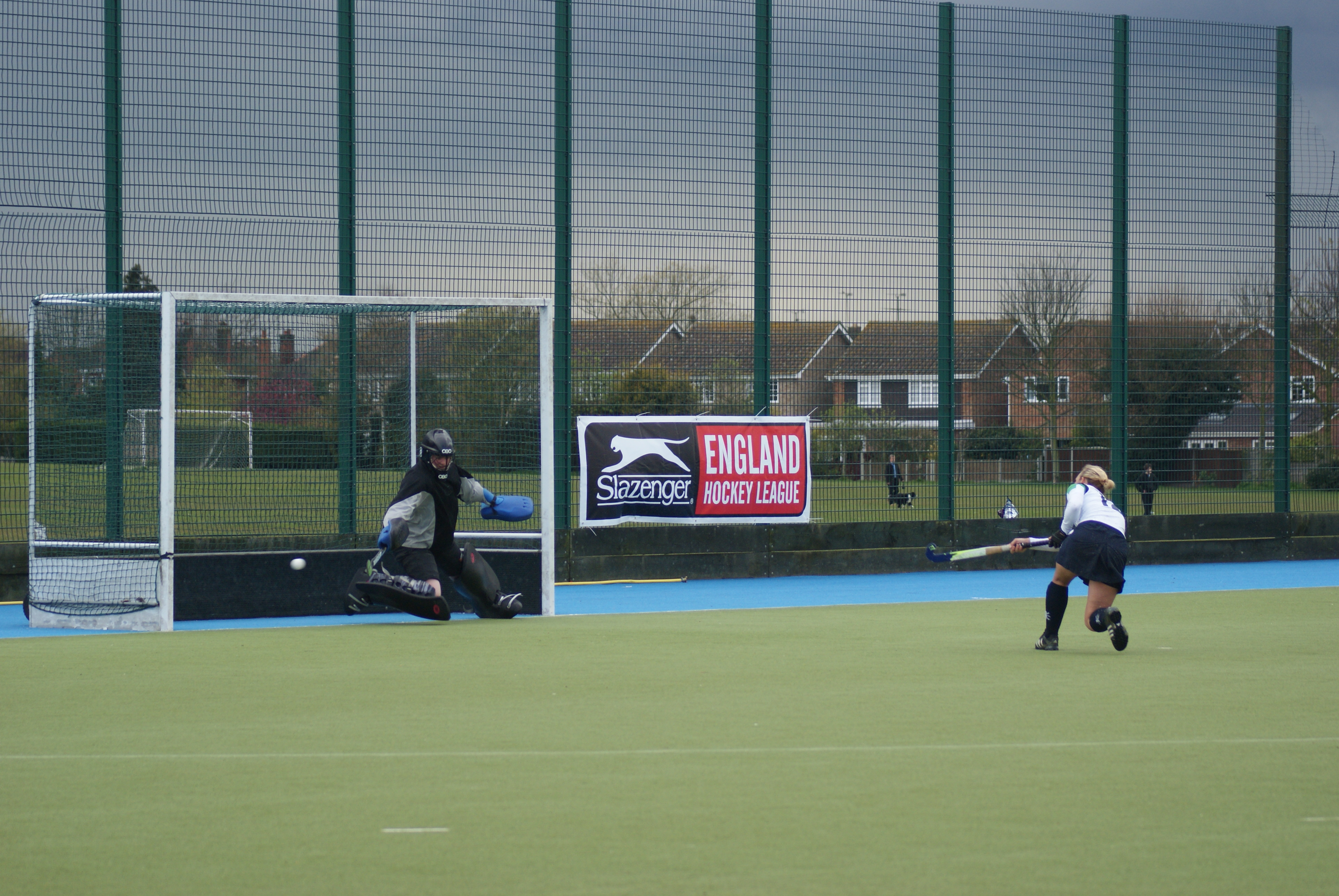 Chelmsford 2 Sunderland 2: Chloe Rogers scores the penalty stroke that puts Chelmsford 1-0 up.